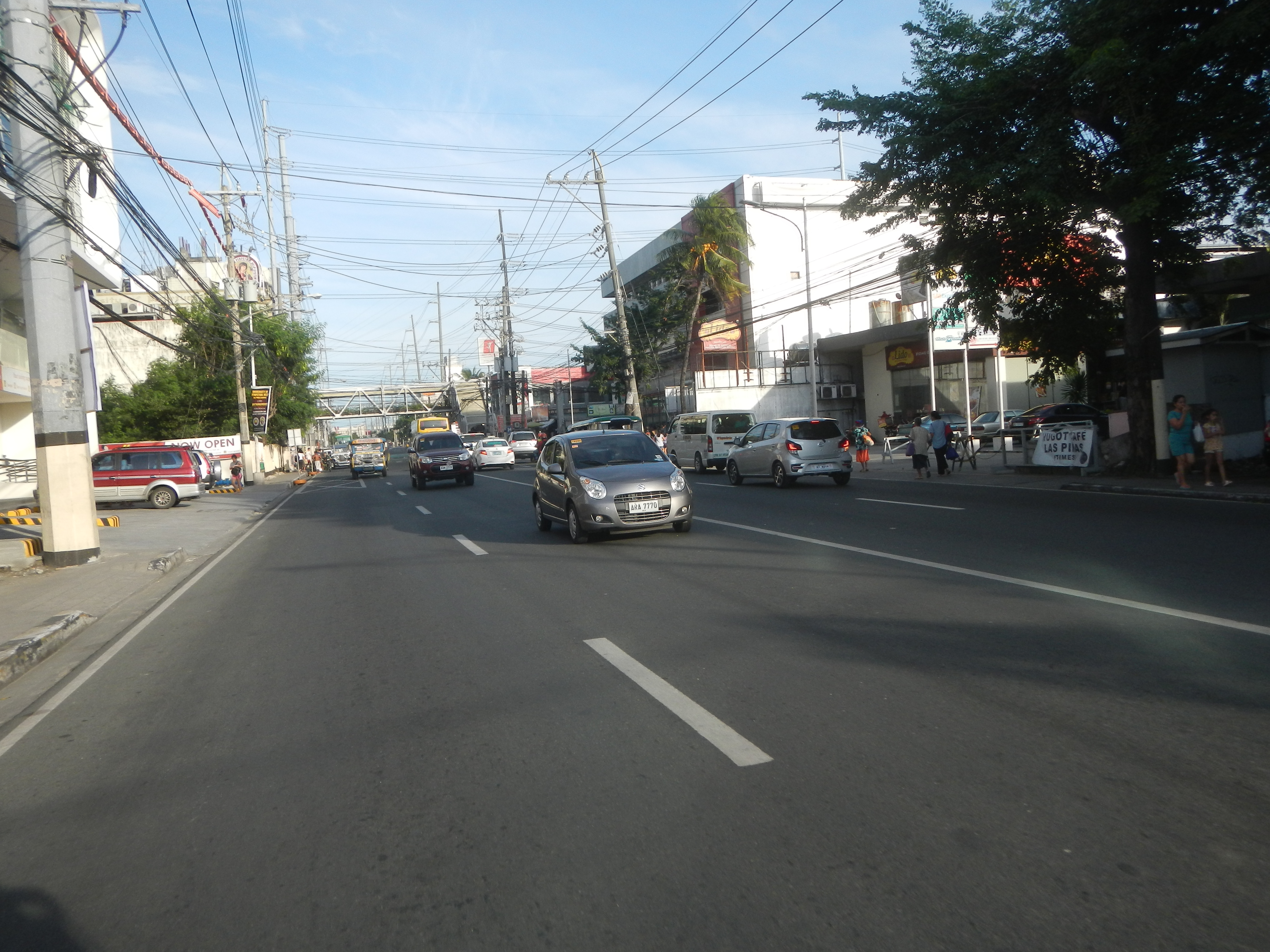 STI Academic Center (Pamplona Tres, Las Piñas City) International Business College, AMA Education Systems (Alabang-Zapote Road, Las Piñas City) AMA Computer University Alabang–Zapote Road Barangays Barangays Pamplona Tres 14°27'17"N 120°59'6"E Pamplona Dos 14°26'55"N 120°58'39"E Pamplona Uno 14°27'31"N 120°58'17"E Zapote 14°27'56"N 120°58'20"E Daniel Fajardo (Poblacion) 14°28'50"N 120°58'53"E Pulang Lupa Uno 14°28'16"N 120°58'36"E Pulanglupa Dos 14°27'41"N 120°59'12"E from Manuyo Uno (Las Piñas) 14°28'52"N 120°59'9"E Las Piñas along Elpidio Quirino Avenue to Diego Cera Avenue to Roxas Boulevard, Radial Road 2 from Baclaran LRT station (Note: Judge Florentino Floro, the owner, to repeat, Donor Florentino Floro of all these photos hereby donate gratuitously, freely and unconditionally Judge Floro all these photos to and for Wikimedia Commons, exclusively, for public use of the public domain, and again without any condition whatsoever).